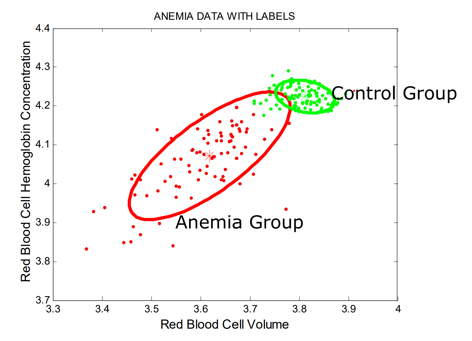 the process of EM algorithm